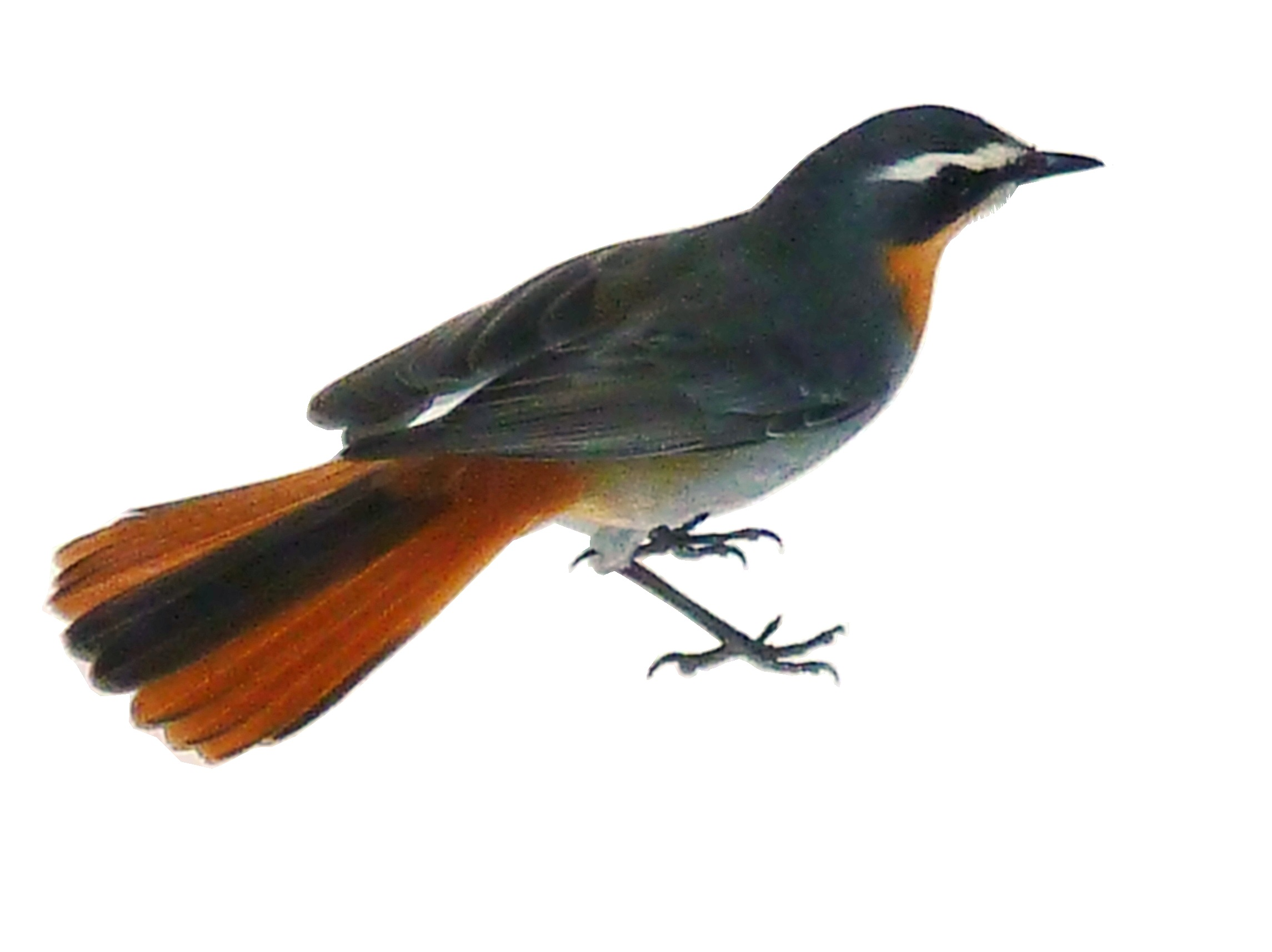 Cape Robin perched on white sheet of paper